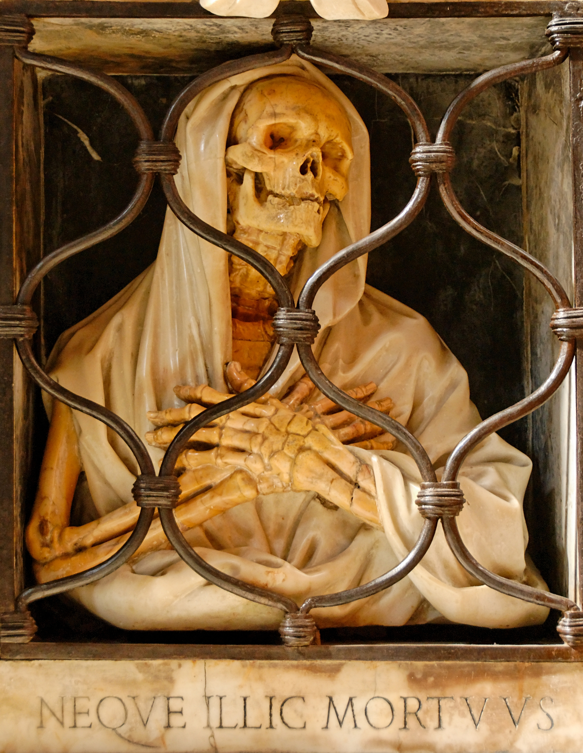 Skeleton with the inscription "neque illic mortuus" ("nor dead there") answering to the inscription "neque hic vivus" ("neither living here") near the portrait of the deceased when he was living. Sculpture of the tomb of Johann Baptista Gislenus (1670), Church Santa Maria del Popolo in Rome.